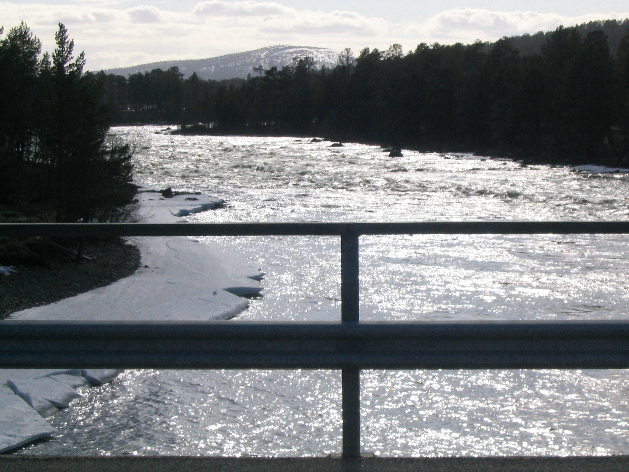 River Juutuanjoki in May, Inari, Finland.